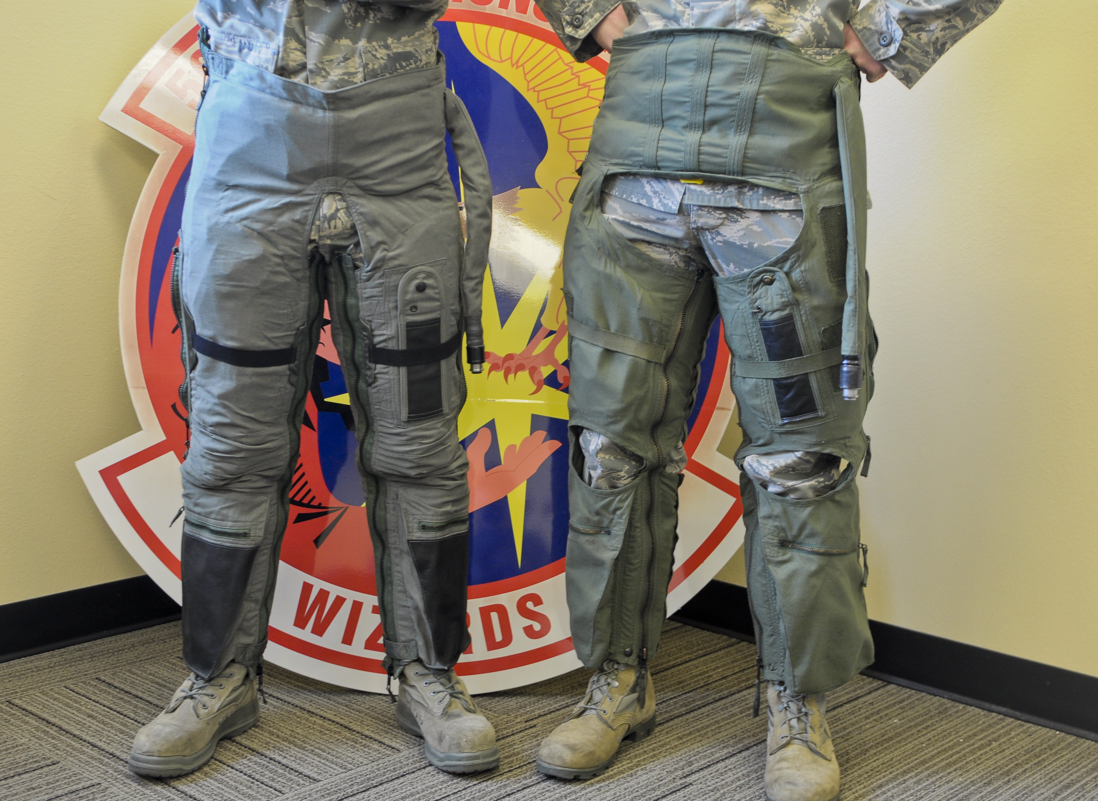 The new full coverage anti-G-suit, left, is the same one used by pilots flying the F-22 and F-35. The current G-suit being used by most pilots at Luke was designed in the ’40s.